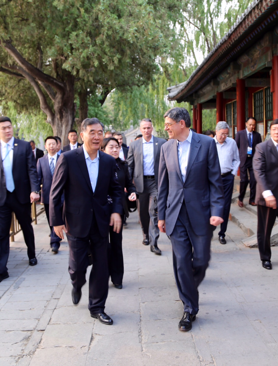 Treasury Secretary Jacob J. Lew walks with Chinese Vice Premier Wang Yang during a tour of the Summer Palace in Beijing ahead of the U.S.-China Strategic & Economic Dialogue on June 5, 2016.